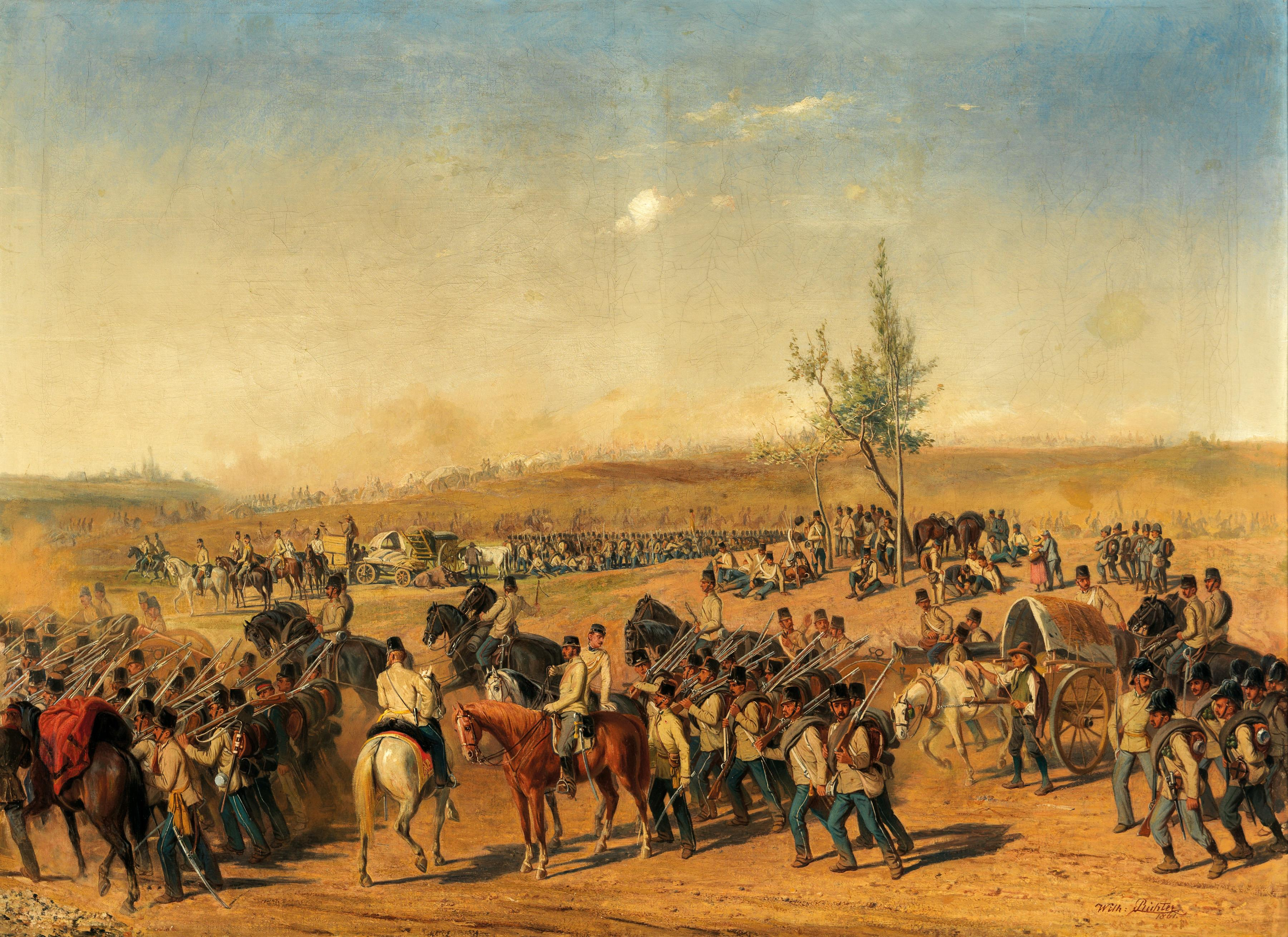 Scene from the Italian Campaign 1859. Oil on canvas, 73 x 100 cm. Signed and dated Wilh. Richter 1861